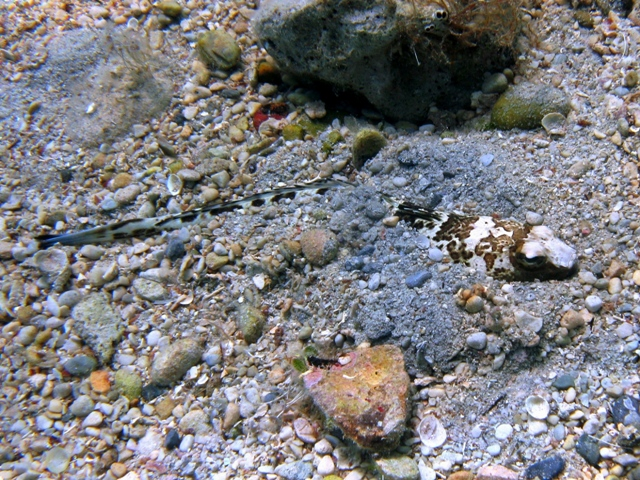 Trachinus radiatus photographed in Croatian waters. Photo by Roberto Pillon.